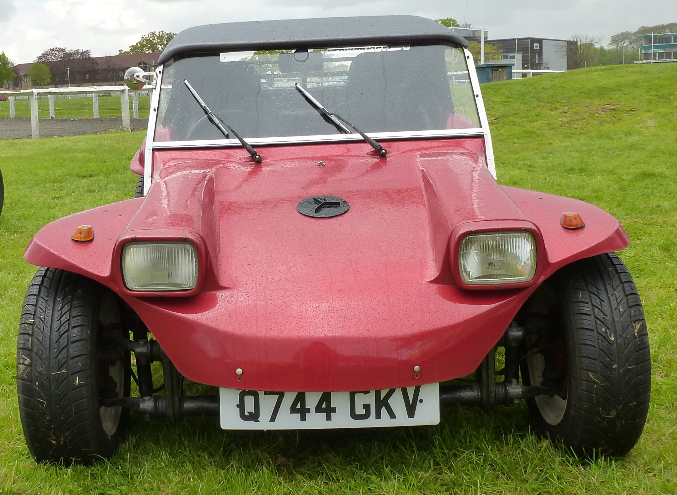 Kingfisher Kustoms Kombat Buggy